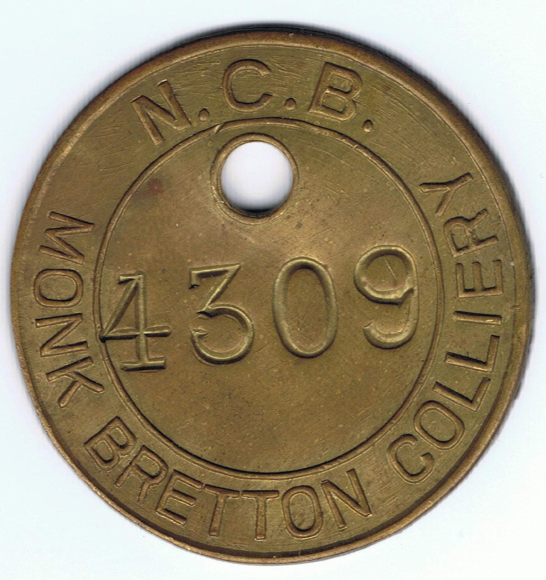 scan of real NCB Monk Bretton Colliery tag, by R. de Salis, October 2007. Rodolph 16:25, 19 October 2007 (UTC)